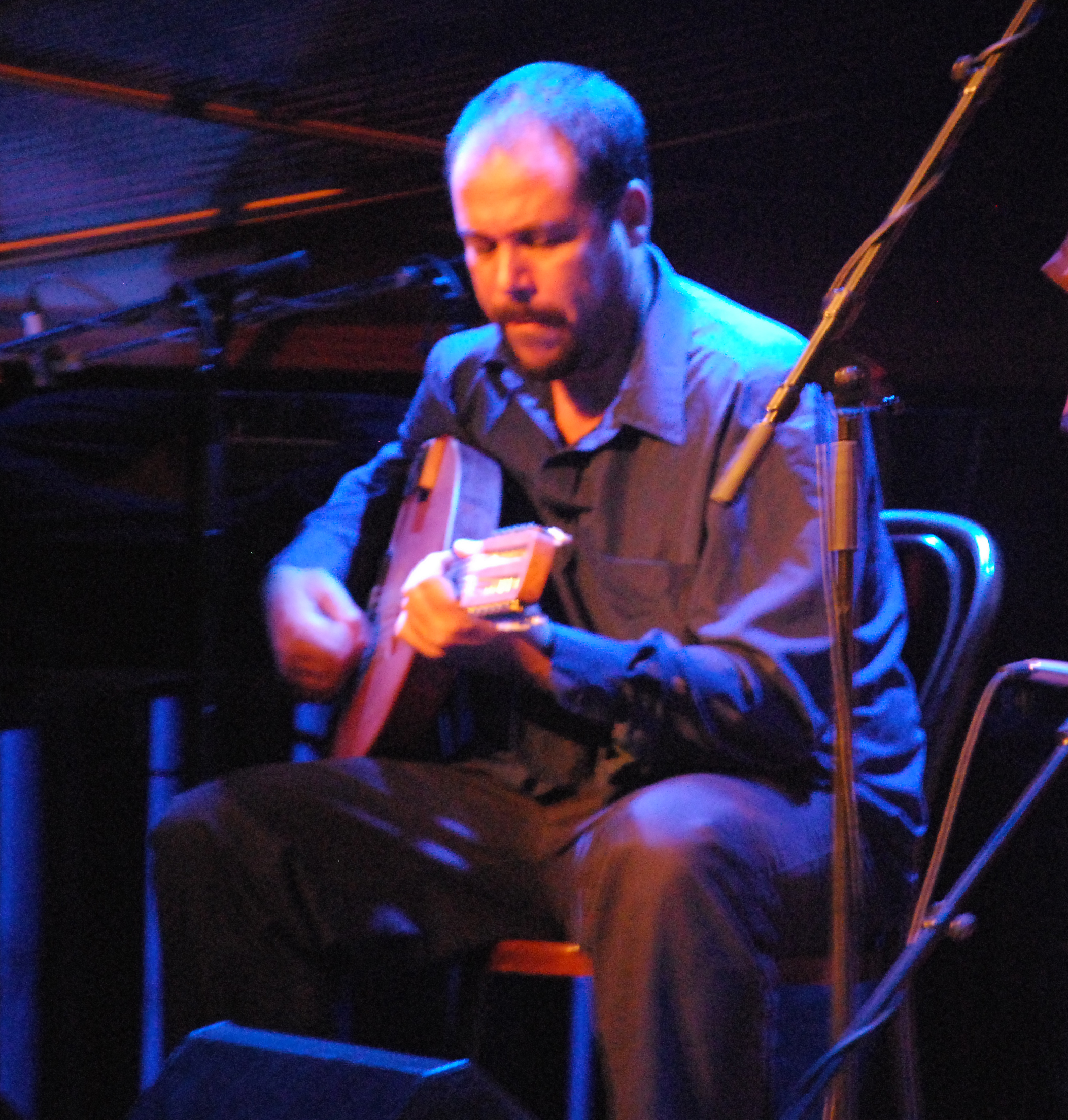 Amos Hoffman at a concert with Avishai Cohen, Treibhaus Innsbruck 2009